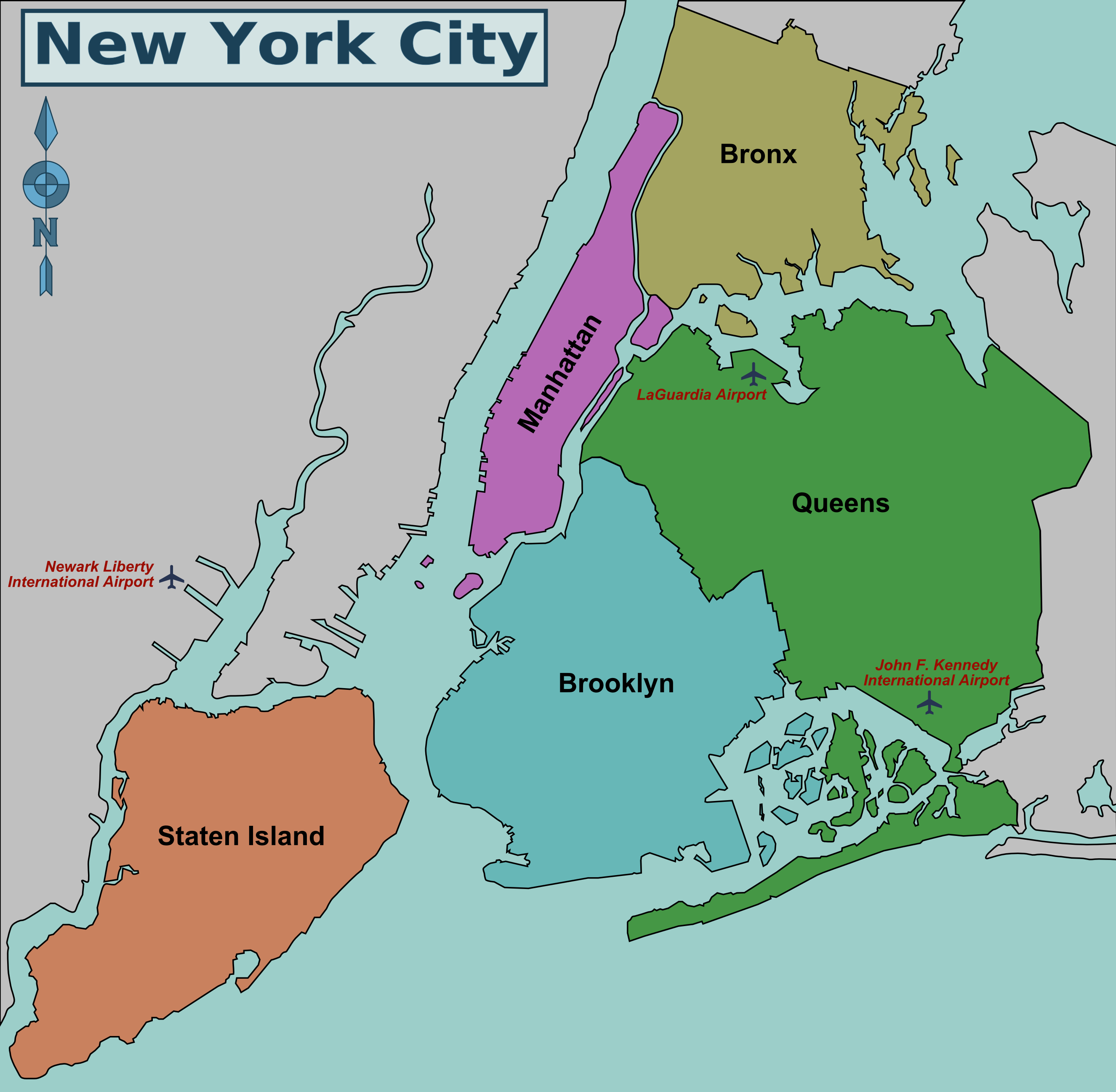 New York City Boroughs Map.